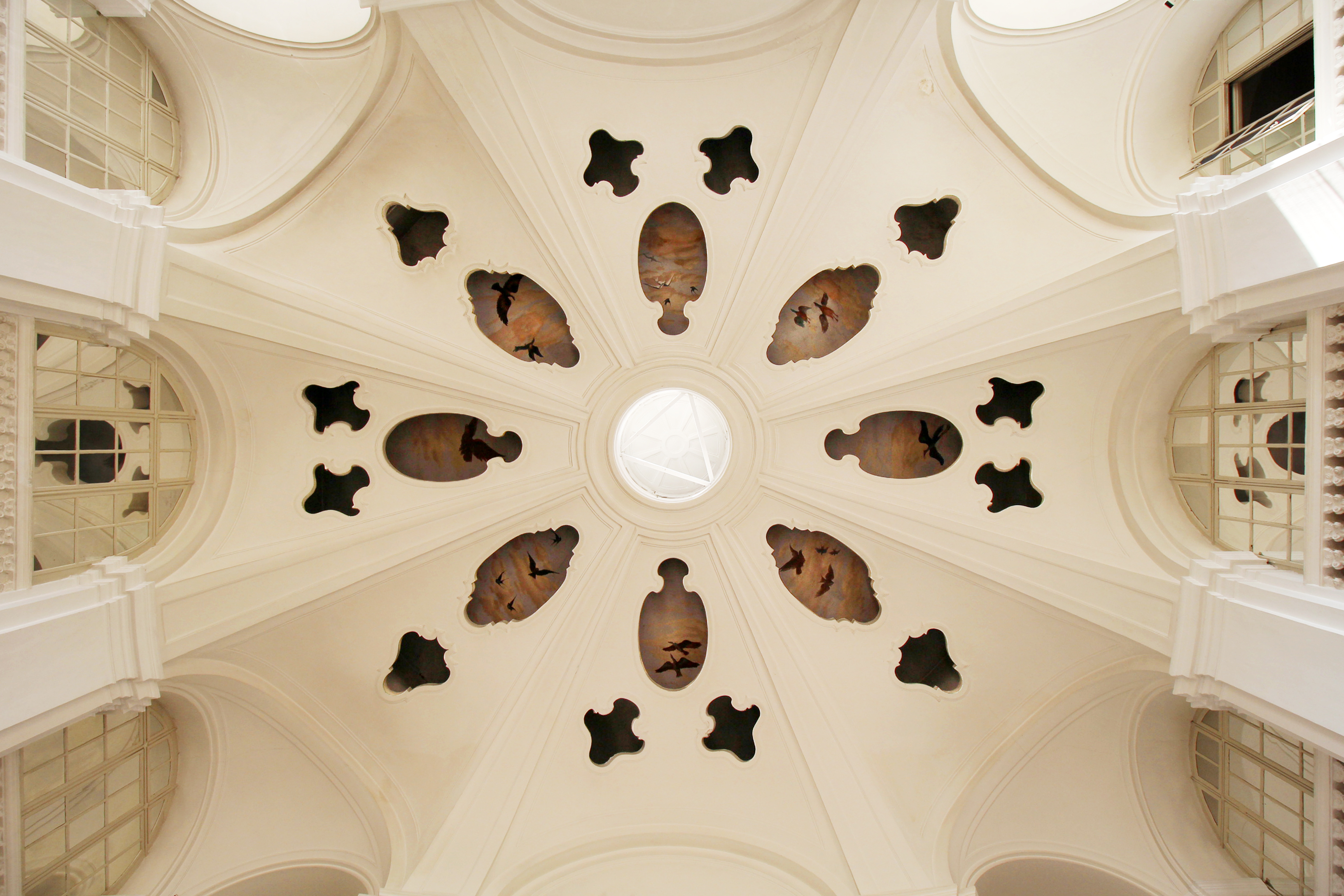 Schlosstheater Schönbrunn Dieses Bild wurde anlässlich des österreichischen Tags des Denkmals 2014 in Wien eingereicht.